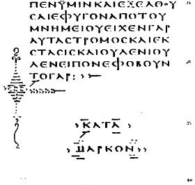 A portion of the Grek Uncial MS. Codex Vaticanus, from the Vatican Library. Mark ends at 16:8.